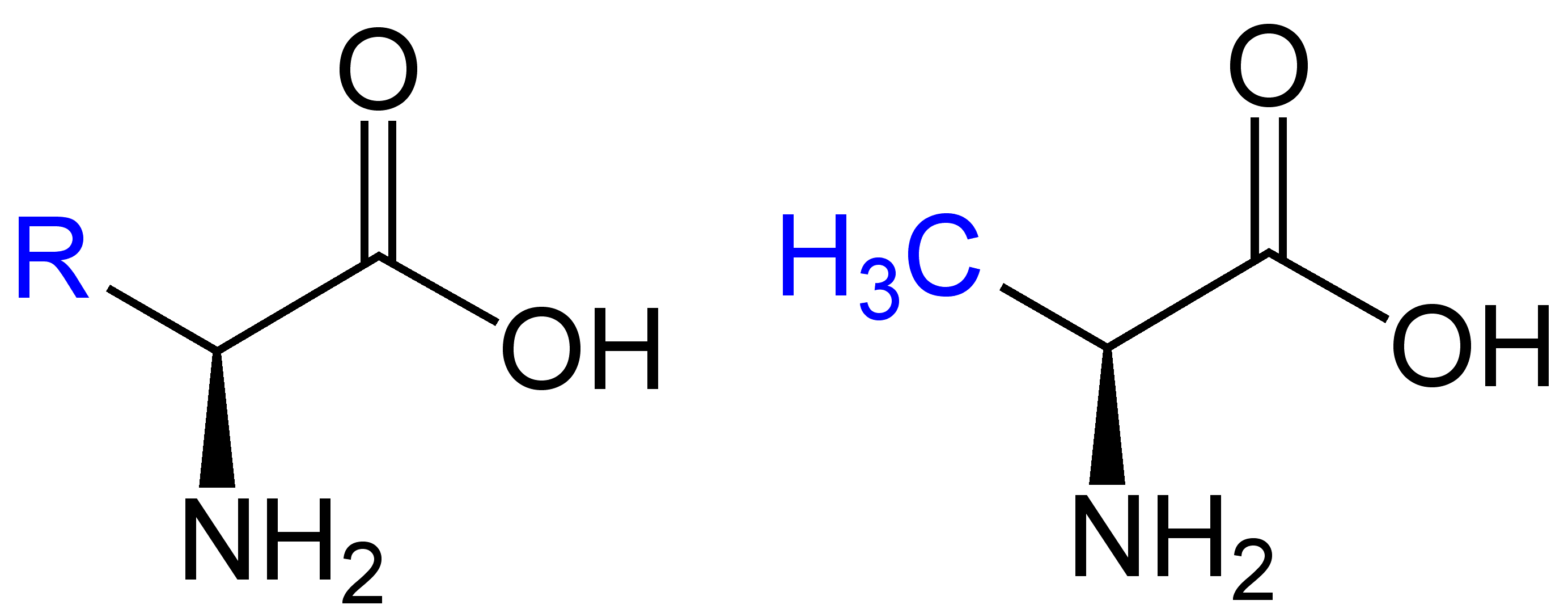 Alpha-Amino_Acids